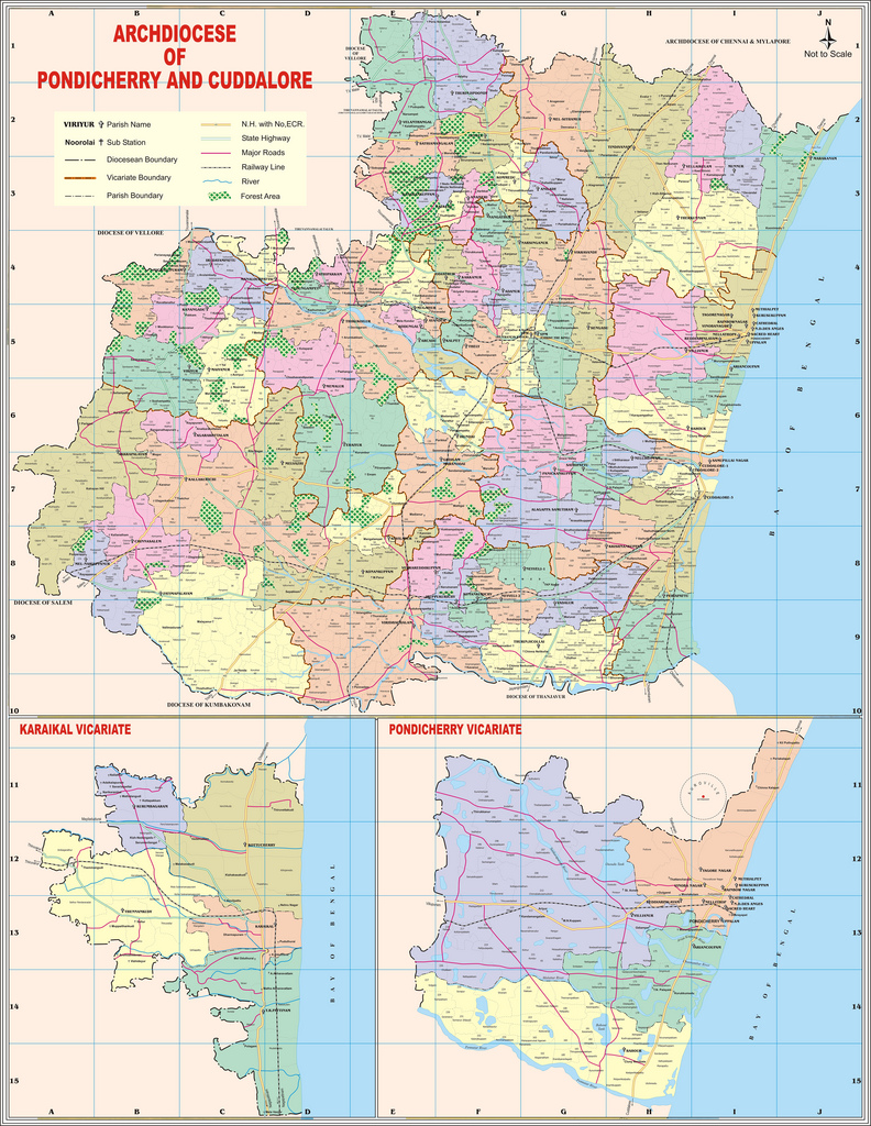 Map of Roman Catholic Archdiocese of Pondicherry and Cuddalore.jpg